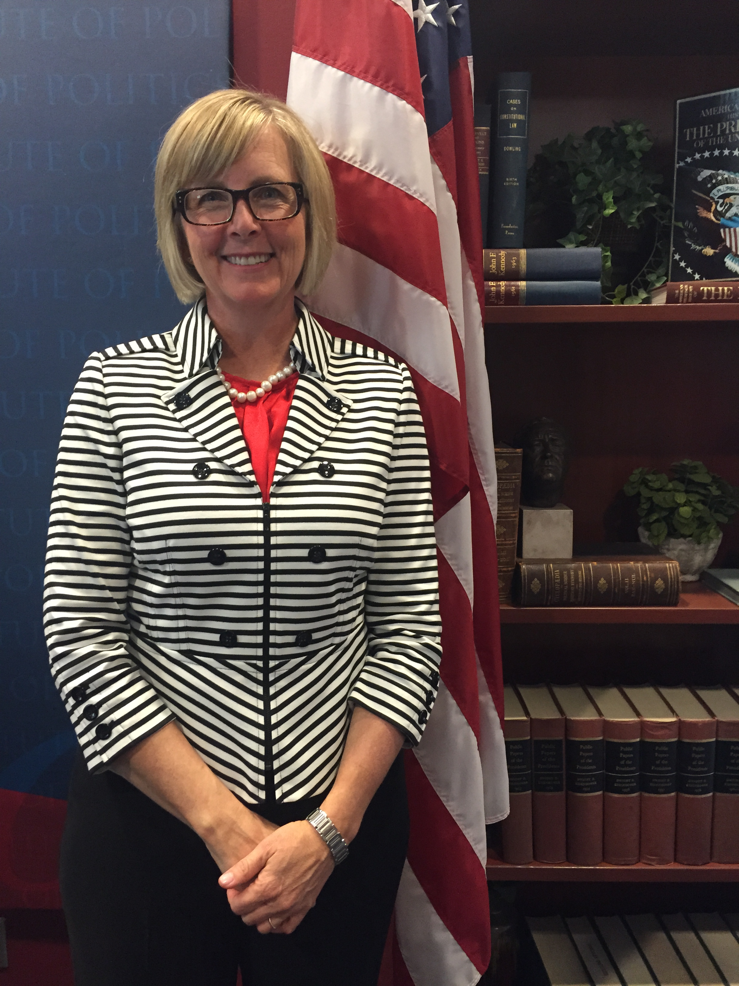 Ms. Edwards in 2015